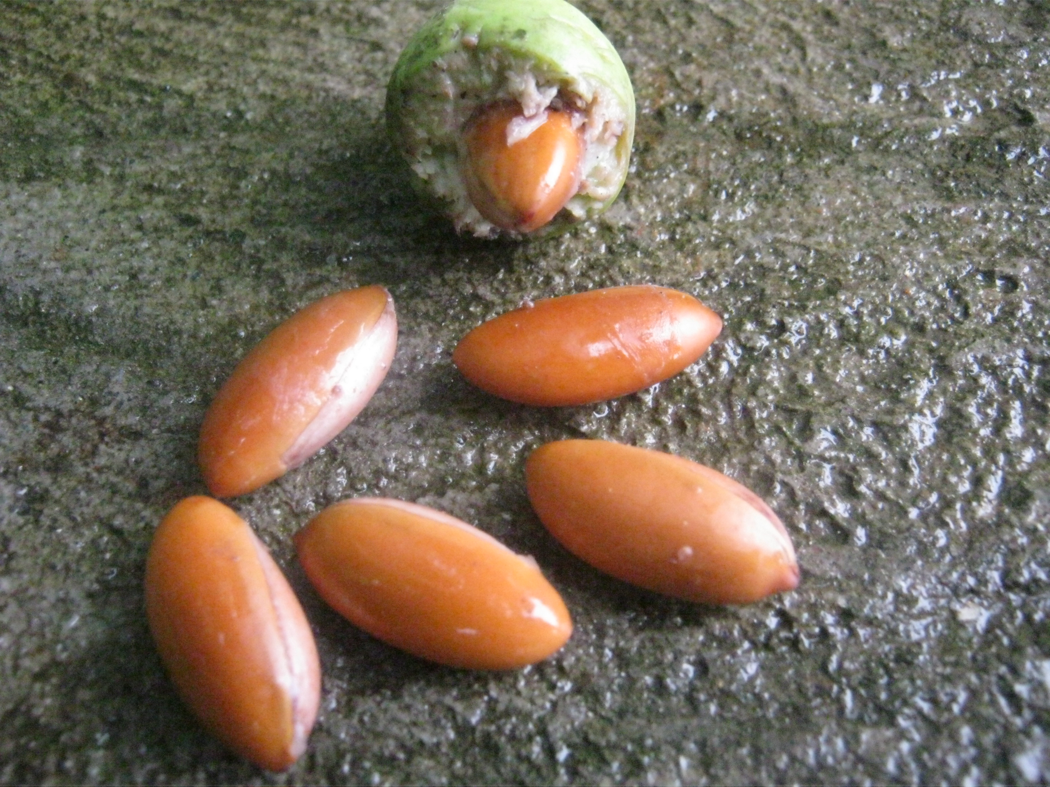 Diploknema butyracea seeds from Panchkhal Valley in Kavre District, Nepal.